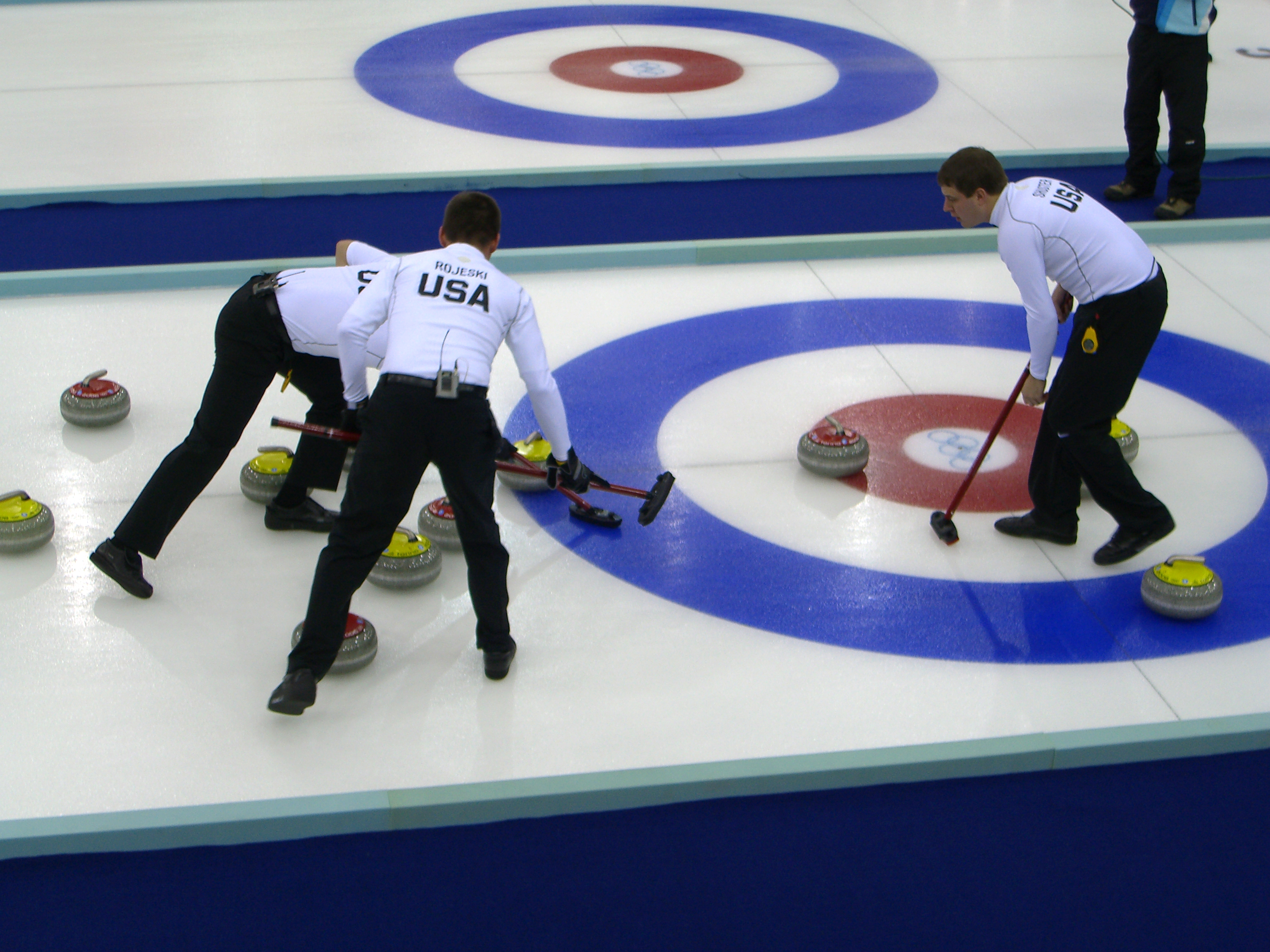 The United States curling team at the Turin Olympics.